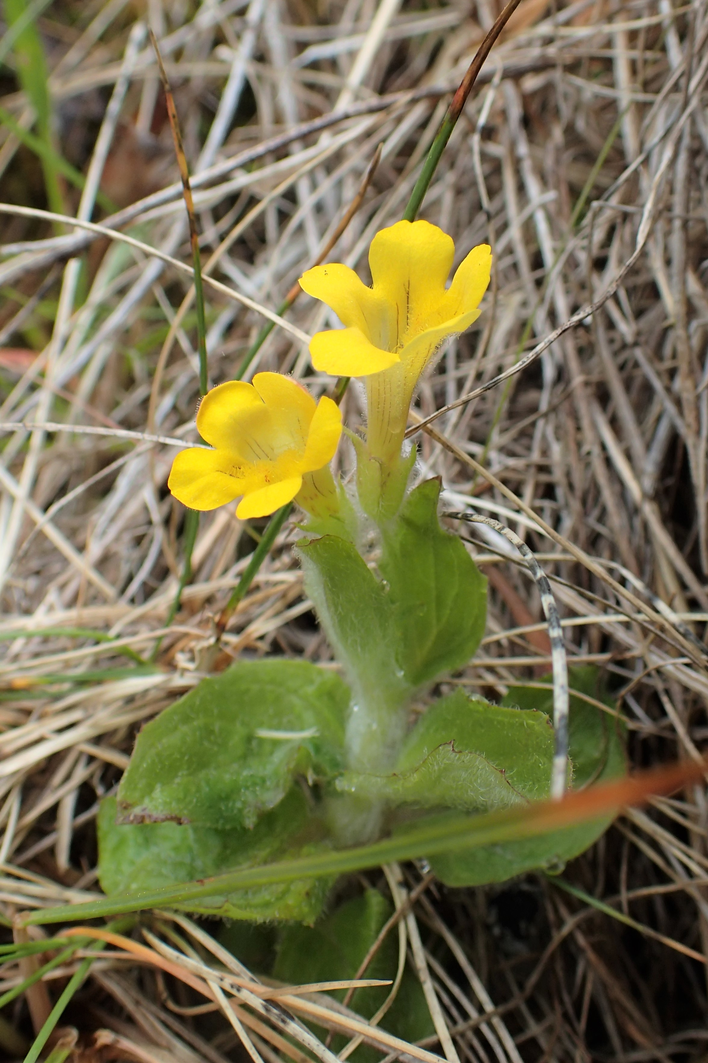 Mimulus moschatus on mountain slope W from Pukaki Lake, Canterbury (New Zealand)